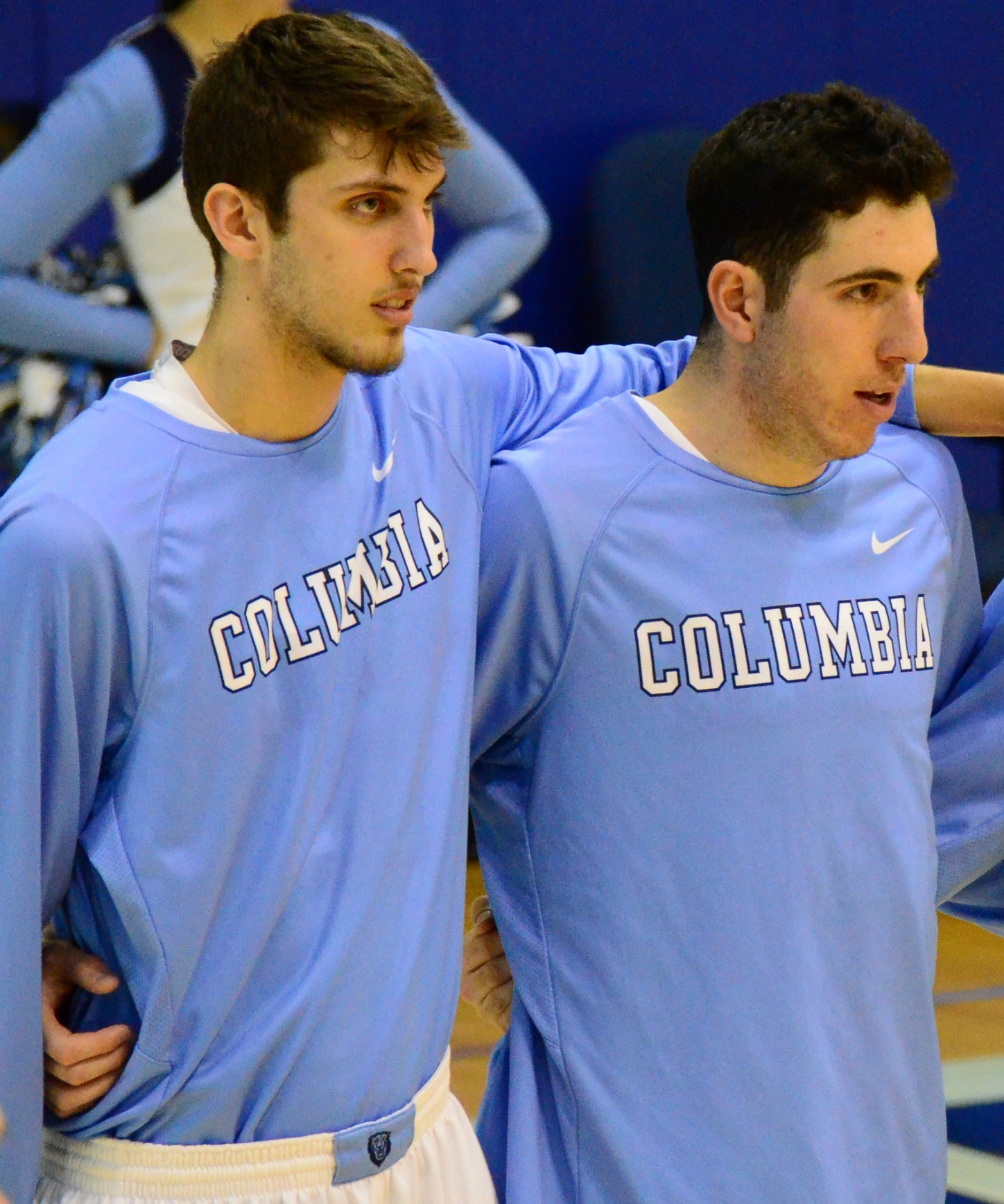 Luke Petrasek (left) and Alex Rosenberg of the Columbia University Lions men's basketball team